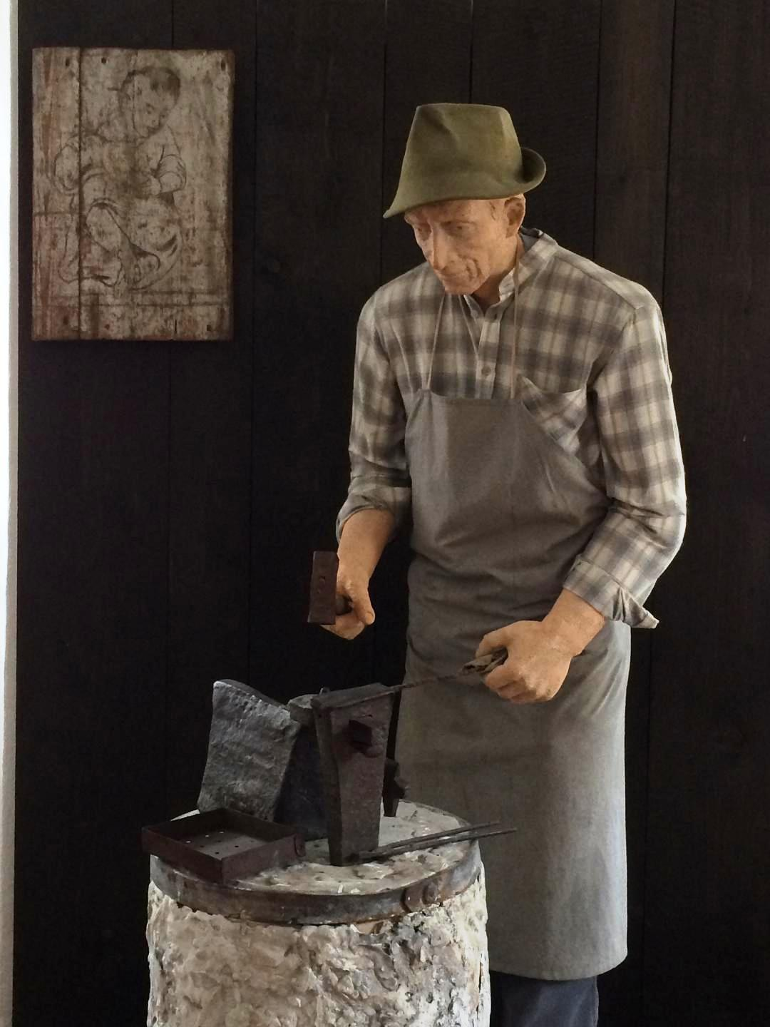 Blacksmith Museum, Kropa, Slovenia